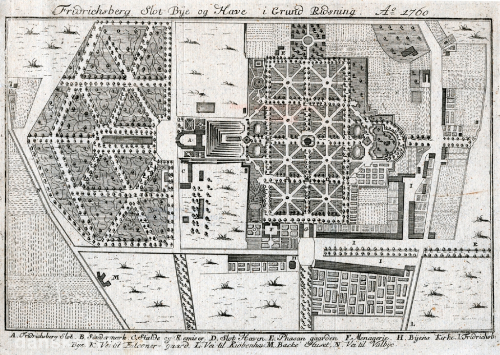 Plan of Frederiksberg Palace, park and town in 1760. "22 x 31 cm. Kobberstik fra Erich Pontoppidan: Den danske Atlas, Tom. II, 1764, side 222-223"